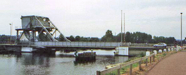 The original Pegasus Bridge (Bénouville, France)